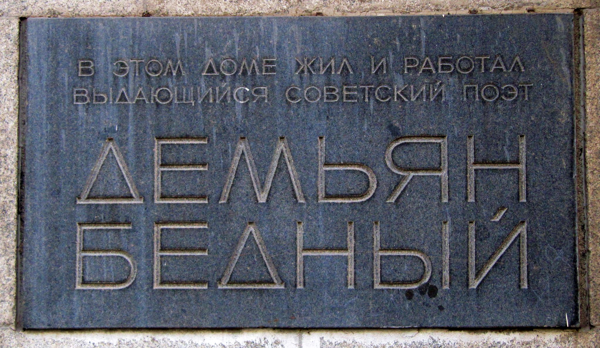 The memorial on the wall of the house where lived famous Soviet writer Demyan Bedny. Moscow, Tverskaya str, 8